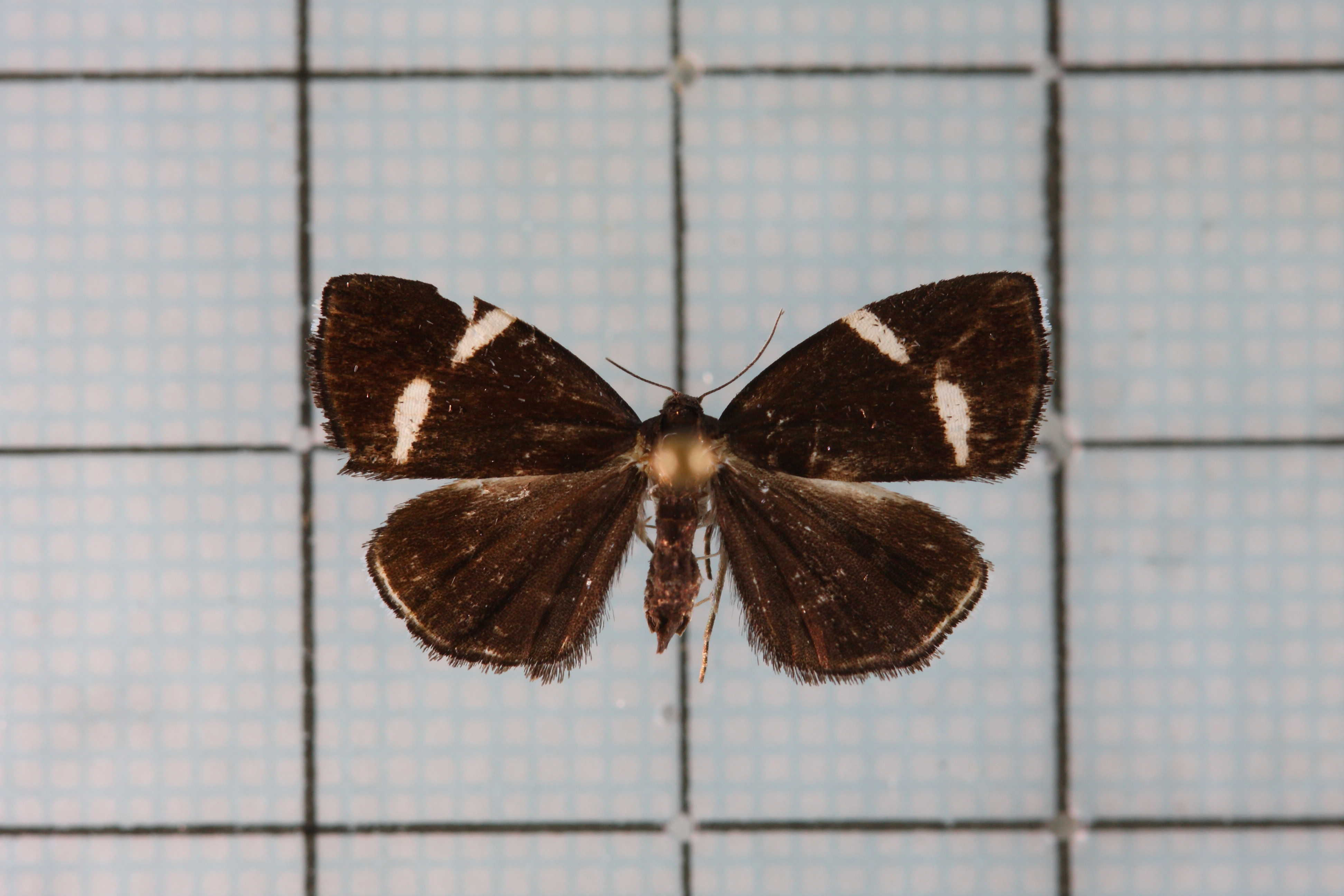 Alampla arcifraga (Meyrick, 1914) from Taiwan 認識台灣的昆蟲 20 :P.177